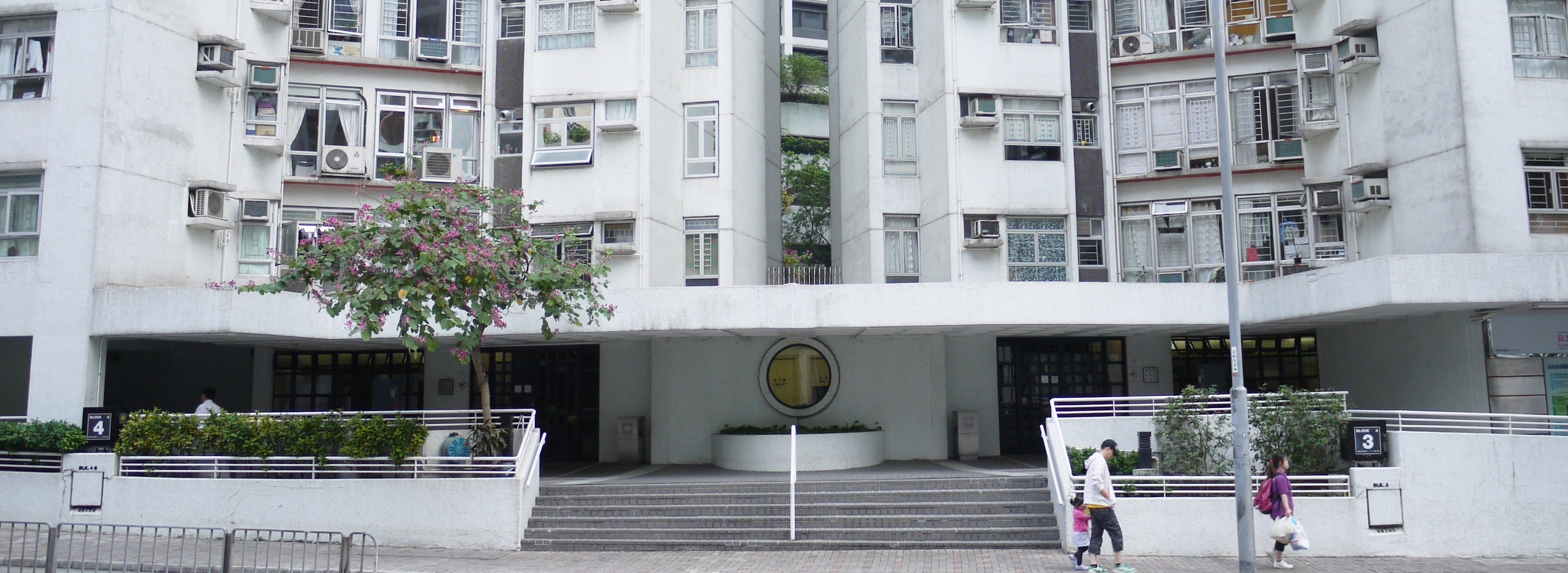 Kornhill Gardens 1